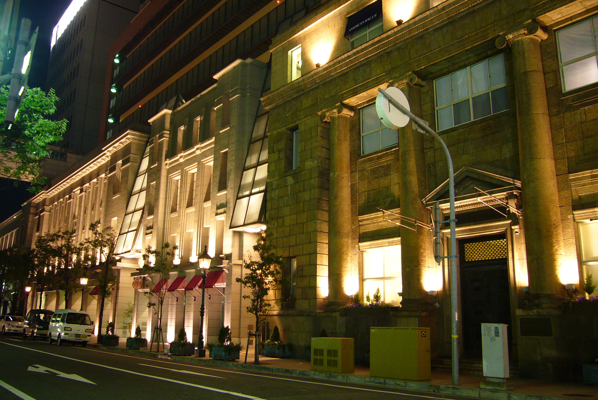 The old settlement hall of No.38 and Daimaru in Kobe, Japan